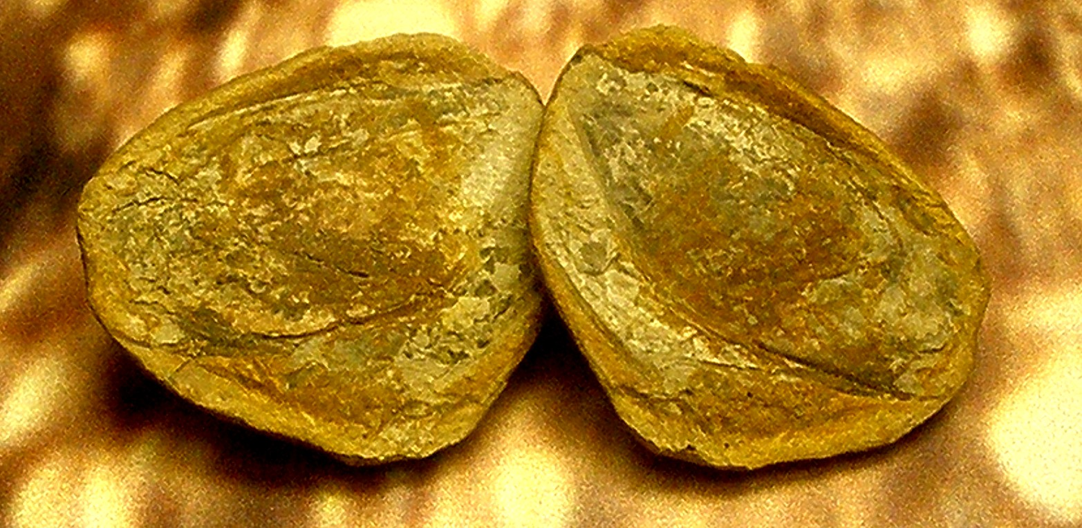 Fossil of Ankitokazocaris, an extinct Thylacocephalian